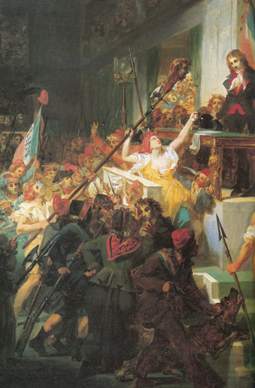 François Antoine de Boissy d'Anglas saluting Jean Féraud's head during the Prairial uprising